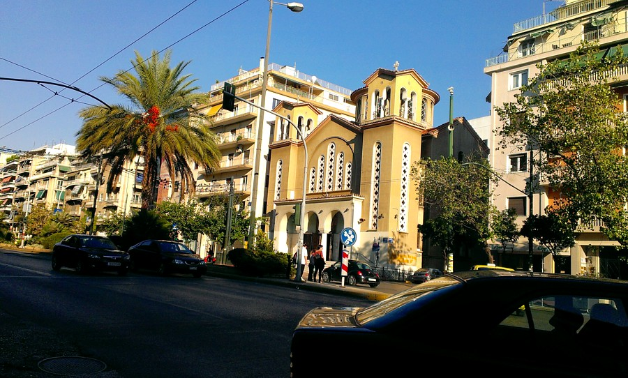 ampelokipoi